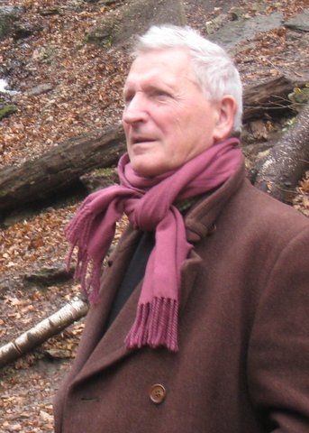 Louis Jensen visited Luther College in November, 2008. He is photographed here outside Dunning Springs.